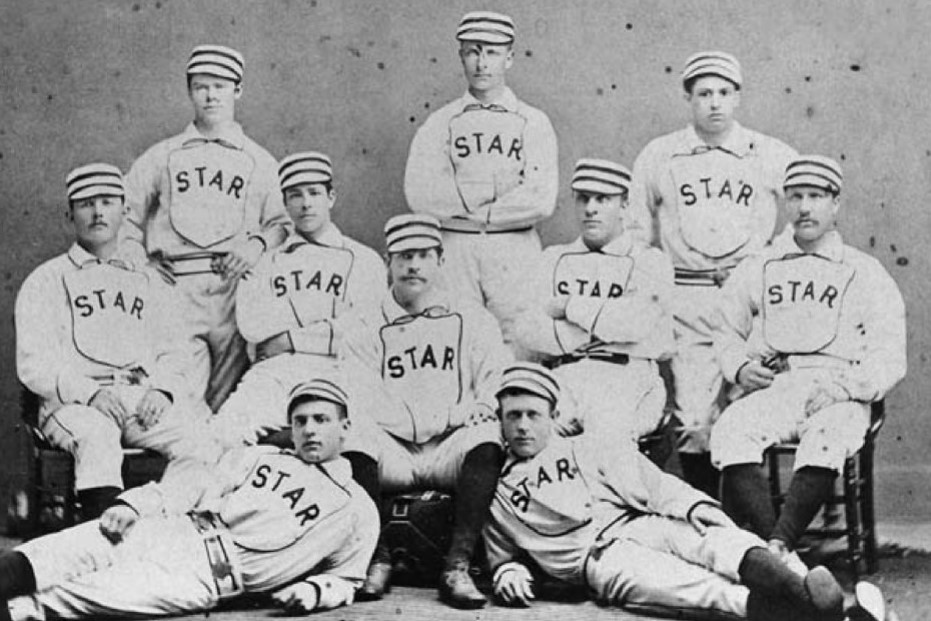 The independent (no league affiliation) Syracuse Stars of 1877. Front: Billy Geer, Jack FarrellCenter: Jim ClintonMiddle row: unknownBack: Tom Mansell, Hick Carpenter, Pete Hotalling